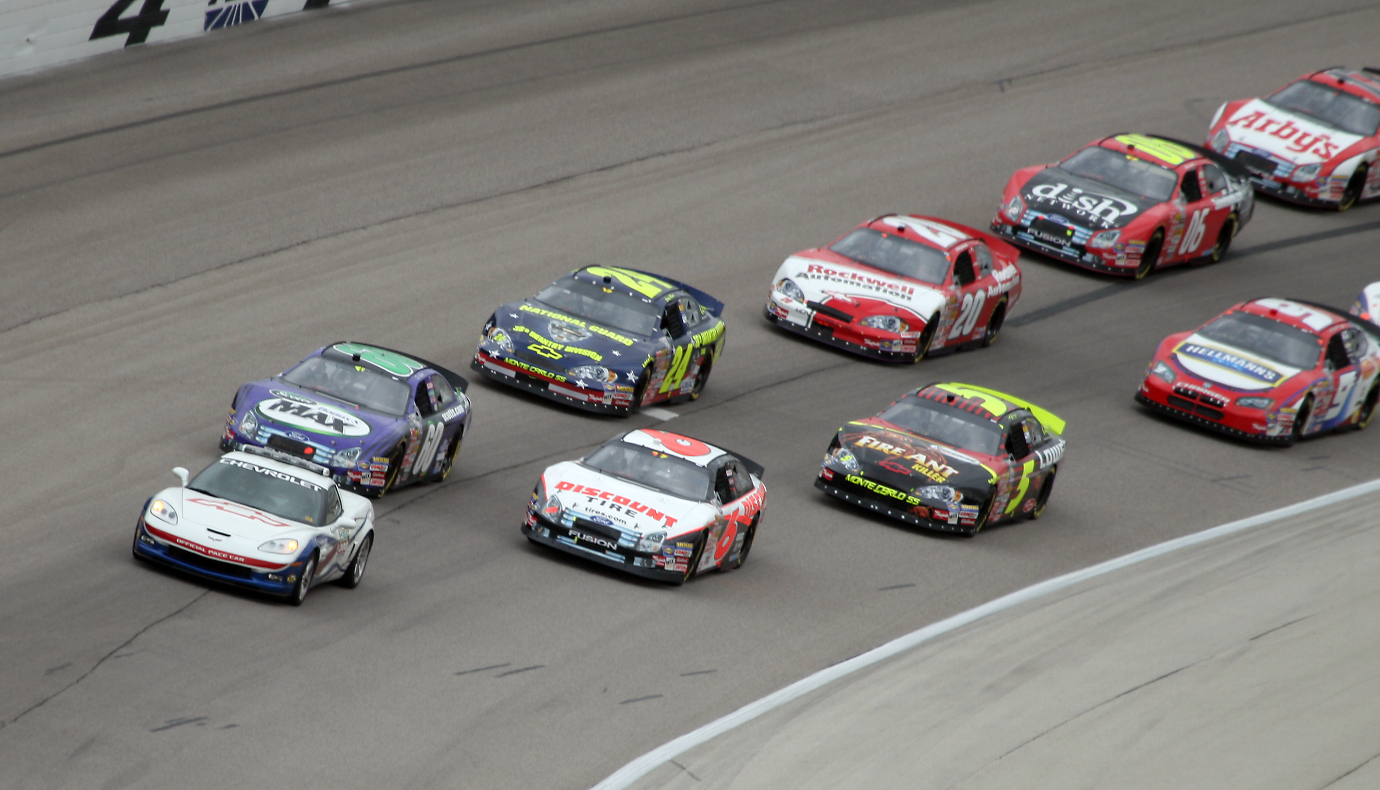 The NASCAR Busch Series field at Texas Motor Speedway in April 2007